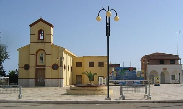 Plaza and church of Borgo Bonsignore Ribera (Ag) Sicily Italy Europe